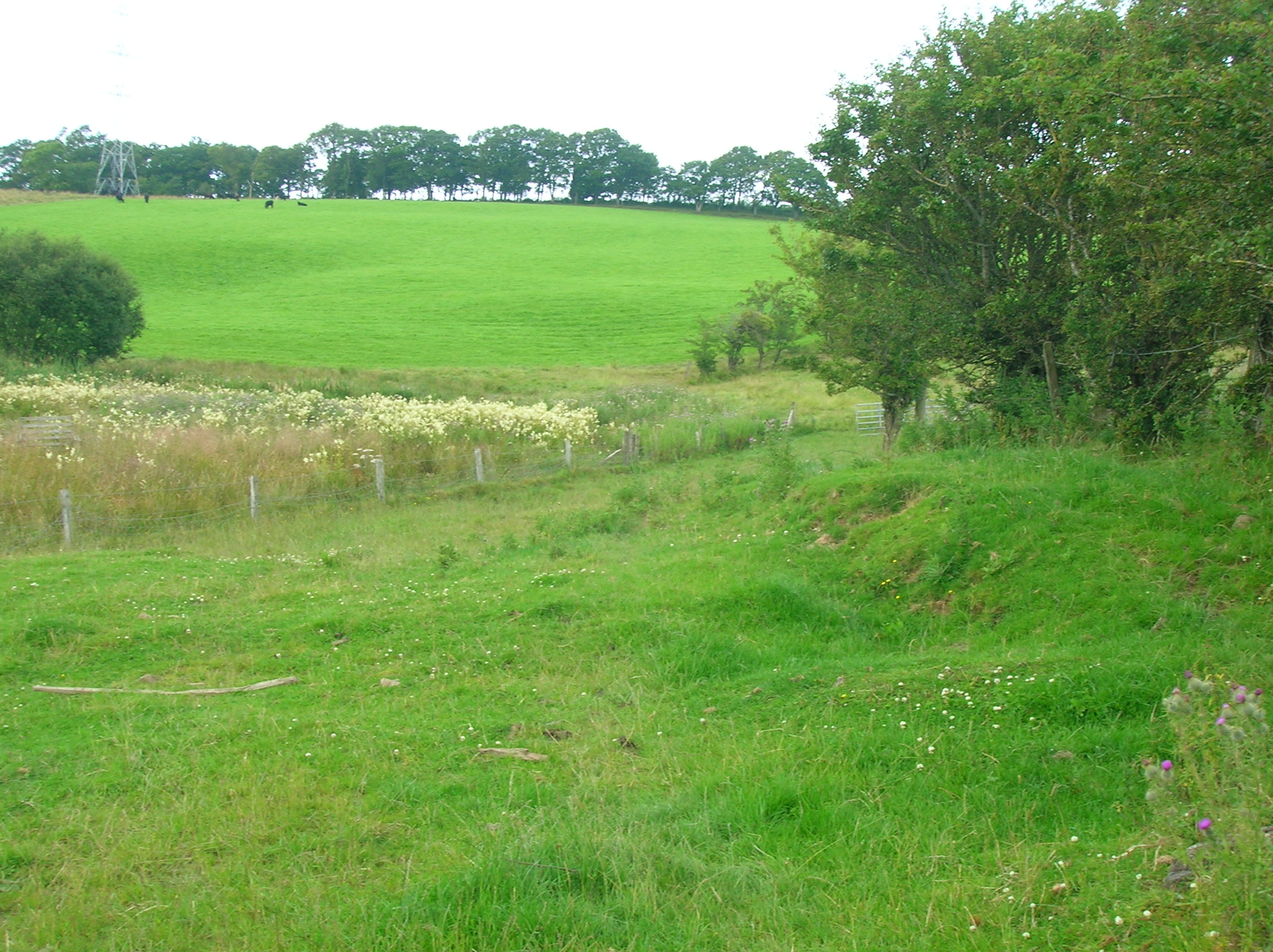 Lochend Loch, north-eastern old lochshore, Joppa, South Ayrshire, Scotland.